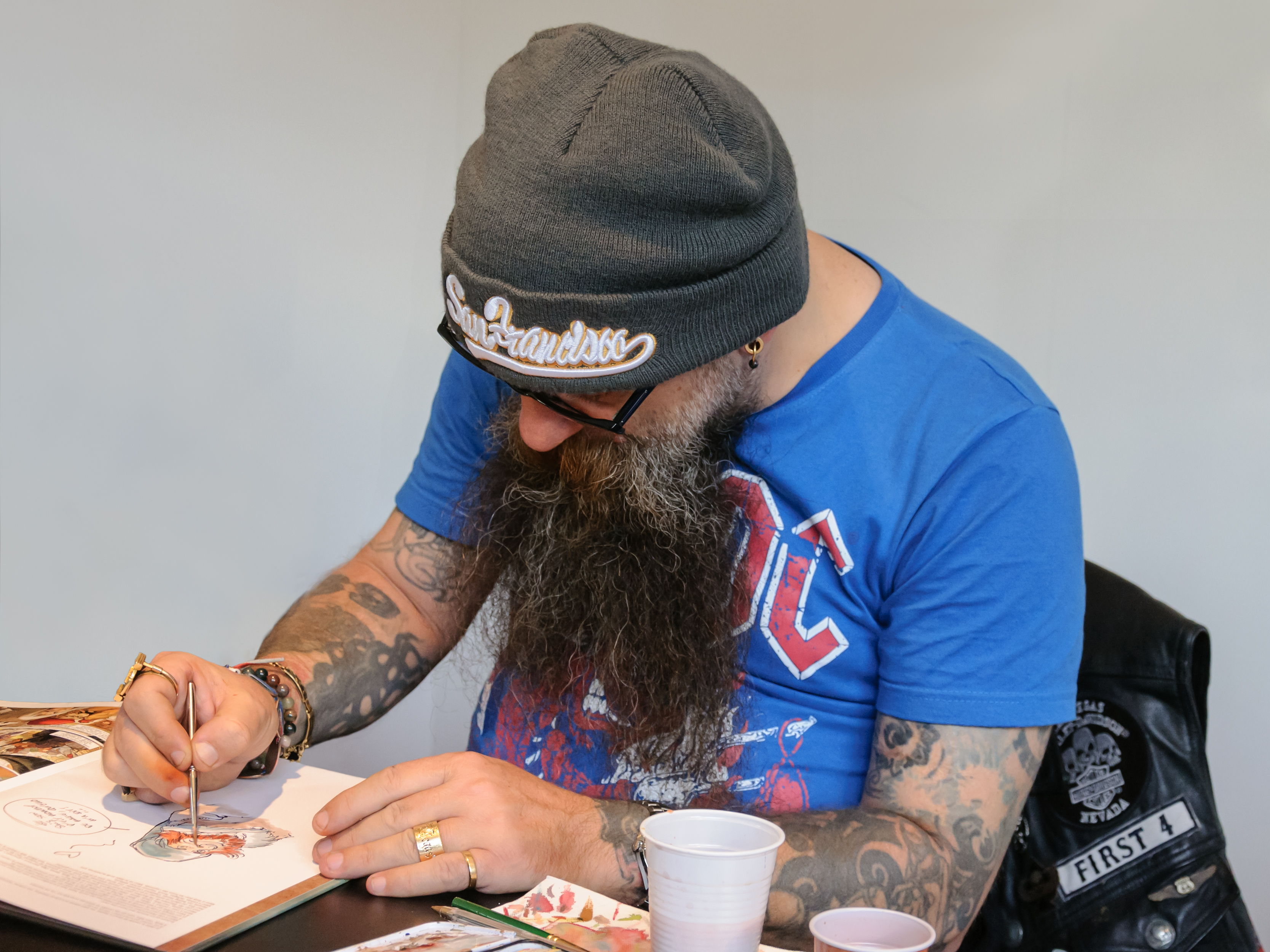 Shovel, a French comics artist, in autograph session at the 40th Angoulême International Comics Festival, 2013.